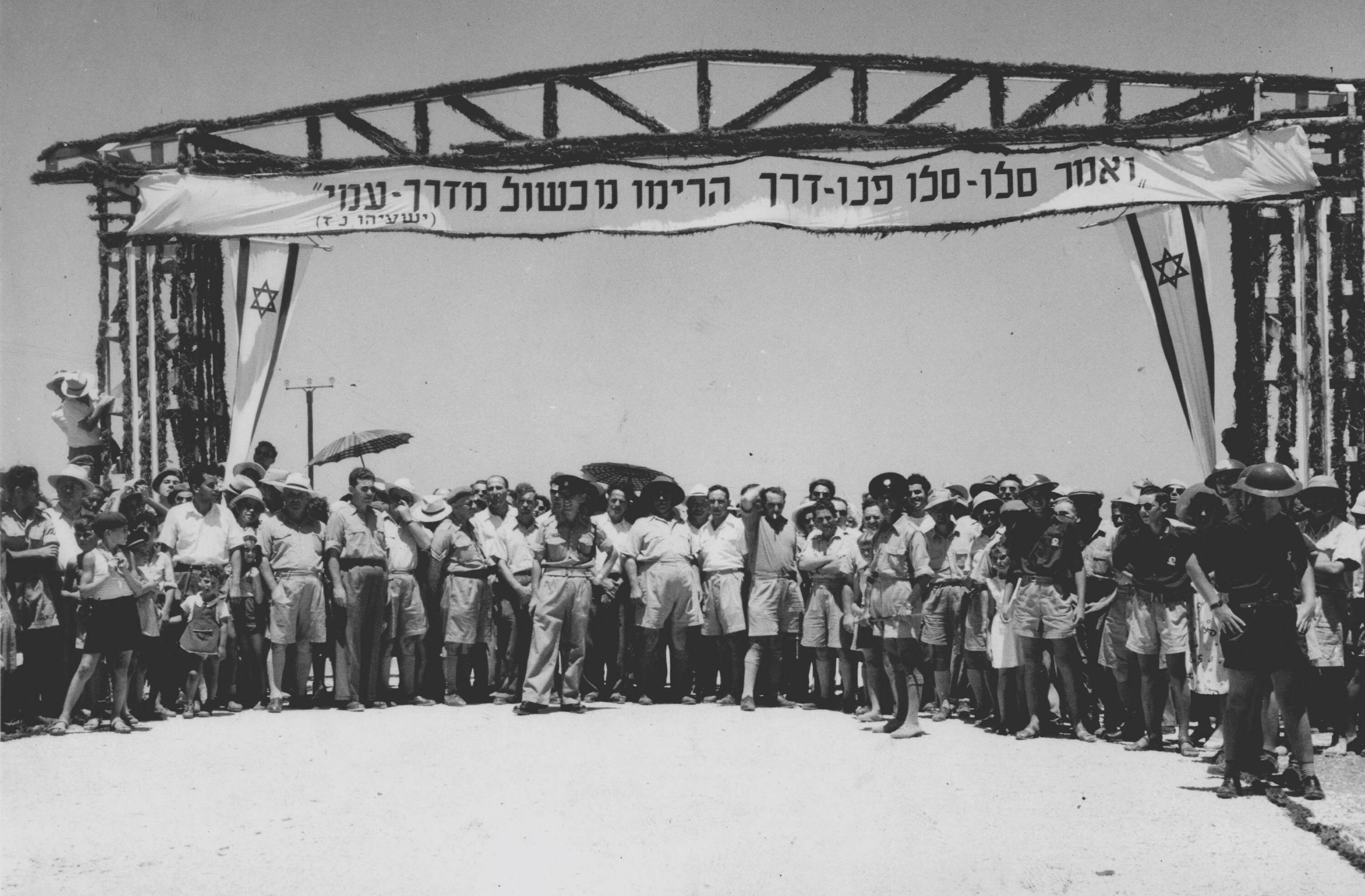 Opening of the new coastal highway between Tel Aviv and Natanya, 1950